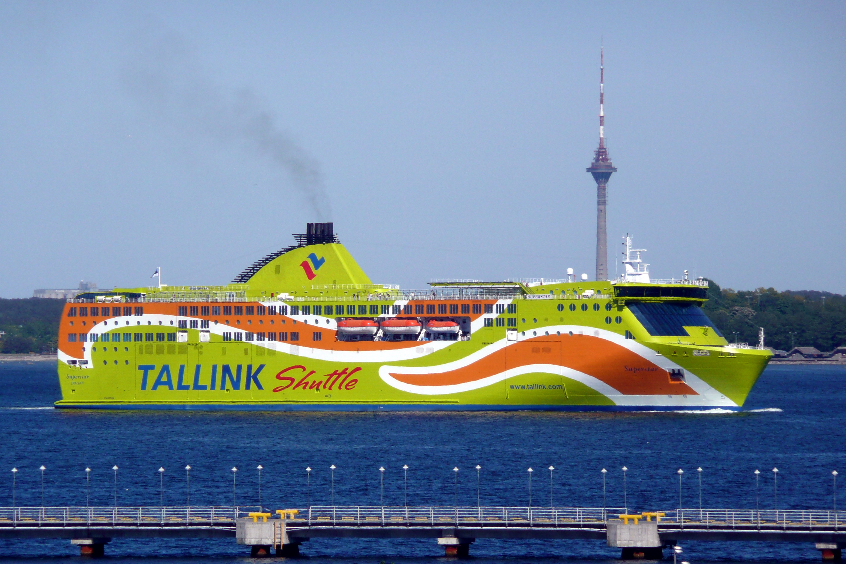 Tallink Superstar ferry